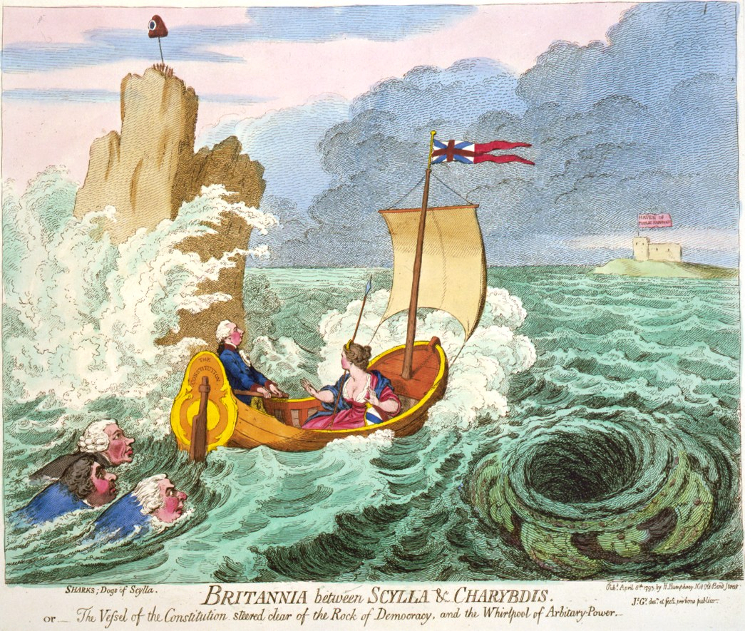 Britannia between Scylla & Charybdis. or— The Vessel of the Constitution steered clear of the Rock of Democracy, and the Whirlpool of Arbitrary-Power. Js. Gy. desn. et fect. pro bono publico. SUMMARY: Pitt steering small boat, The Constitution, which also carries Britannia, towards a castle with a flag inscribed "Haven of Public Happiness". They are pursued by Sheridan, Fox, and Priestley, who are sharks, dogs of Scylla. MEDIUM: 1 print : engraving, color. CREATED/PUBLISHED: [London] : Pub. by H. Humphrey, April 8th 1793.Depicted people: William Pitt the Younger, Richard Brinsley Sheridan, Charles James Fox, Joseph Priestley and Britannia